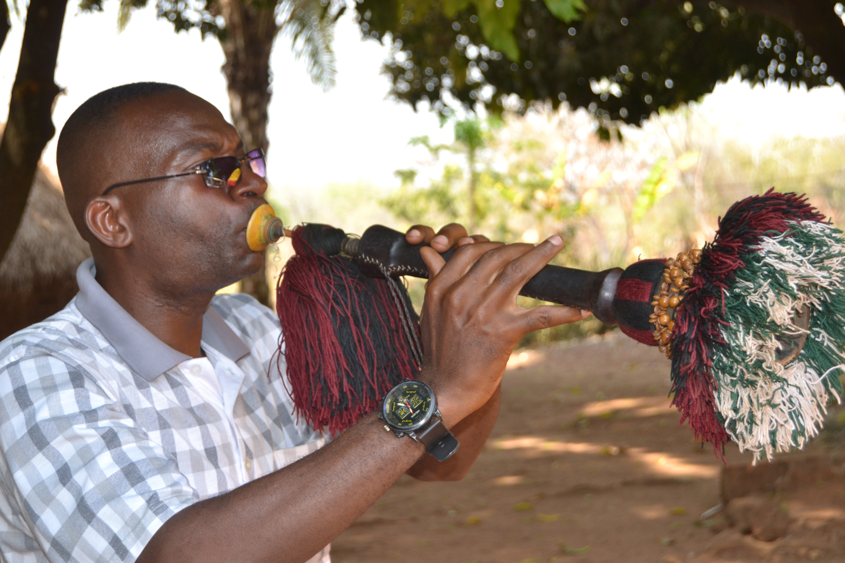 A traditional flute player This is an image from Nigeria